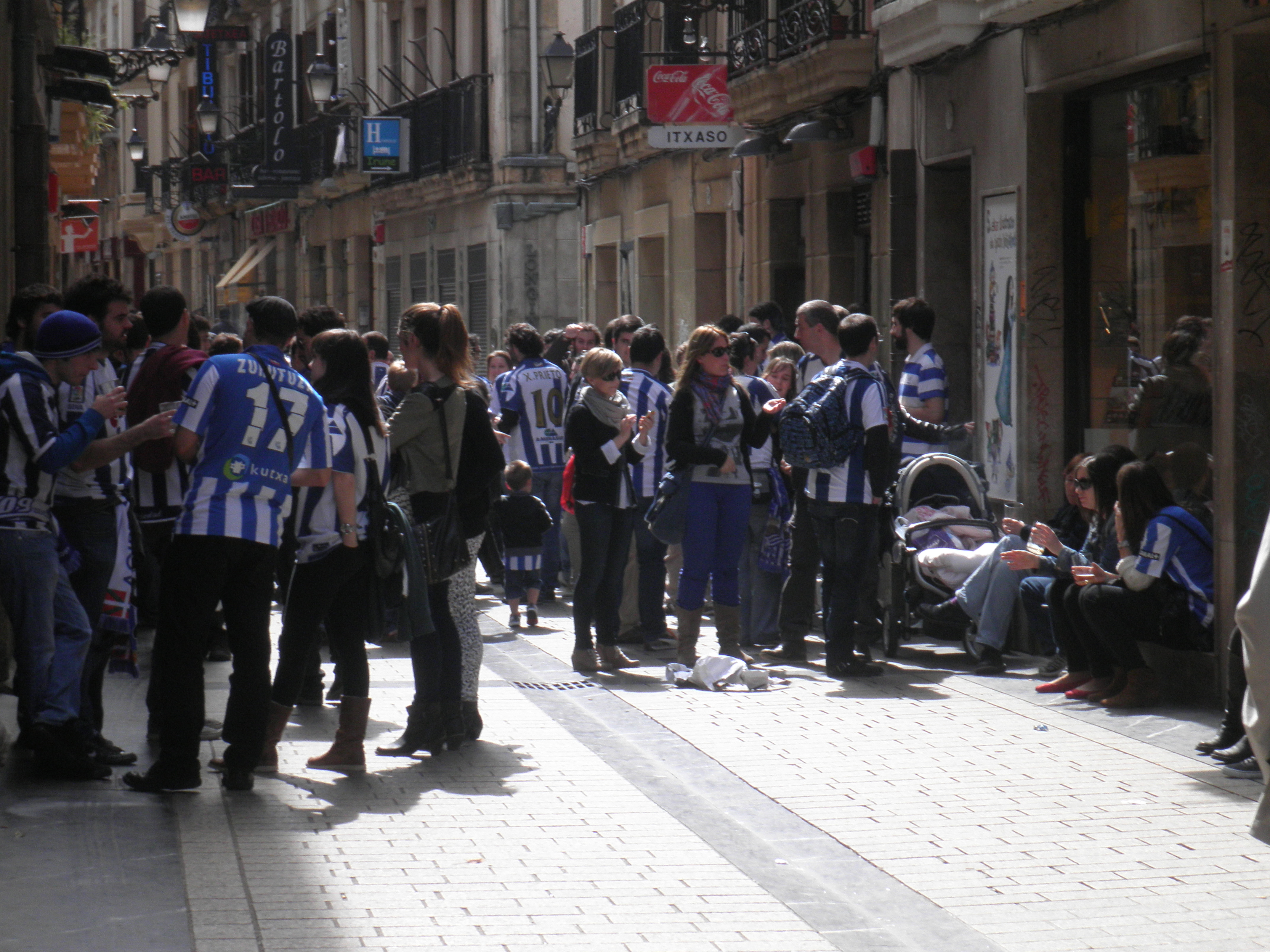 Supporters of Real Sociedad in Parte Zaharra